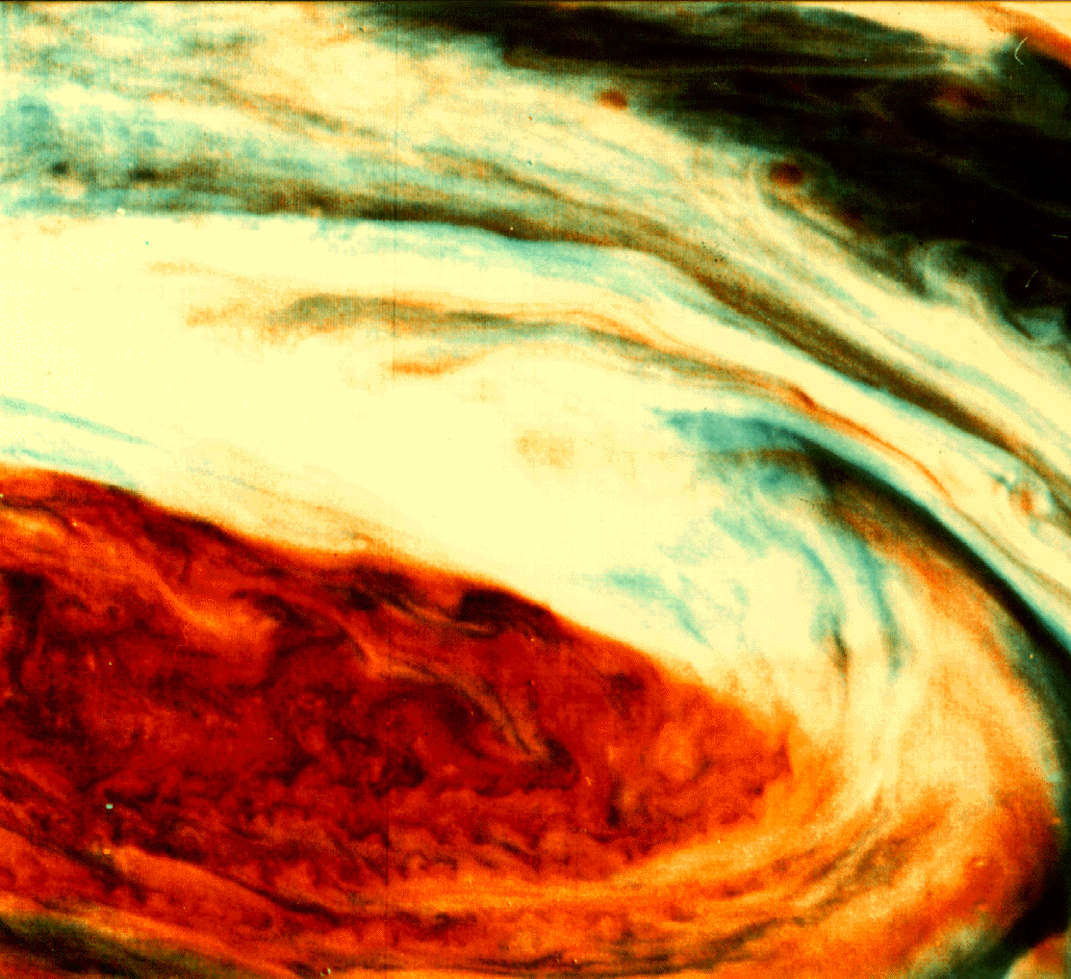 Voyager 1 image of the Great Red Spot on Jupiter in exaggerated color. The spot is over 12,000 km wide in its narrowest dimension. The structure is over 300 years old, and appears to be some sort of stable vortex in Jupiter's atmosphere.